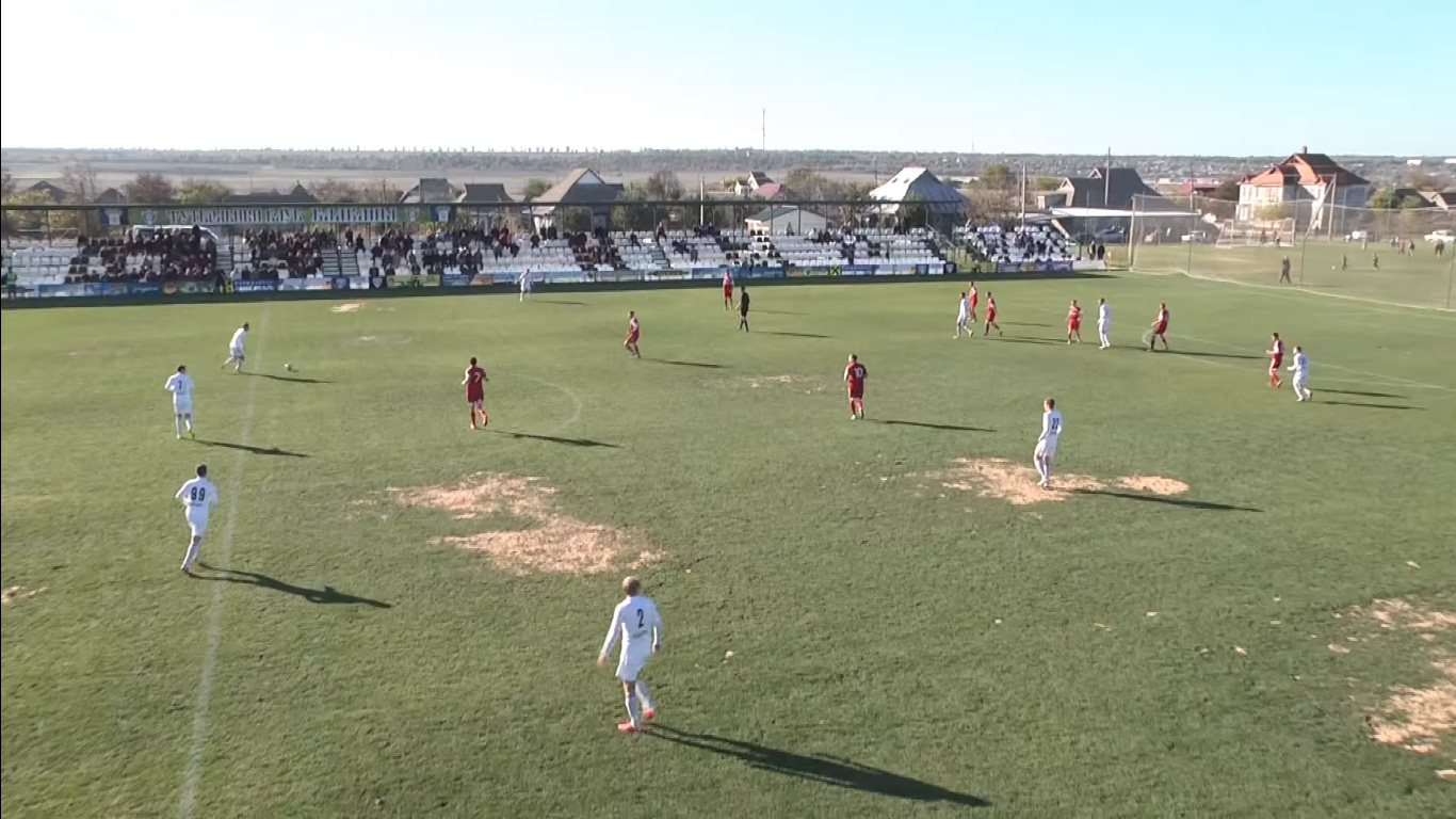 Borys Tropanets Stadium in Zorya, Sarata Raion, Odesa Oblast, Ukraine